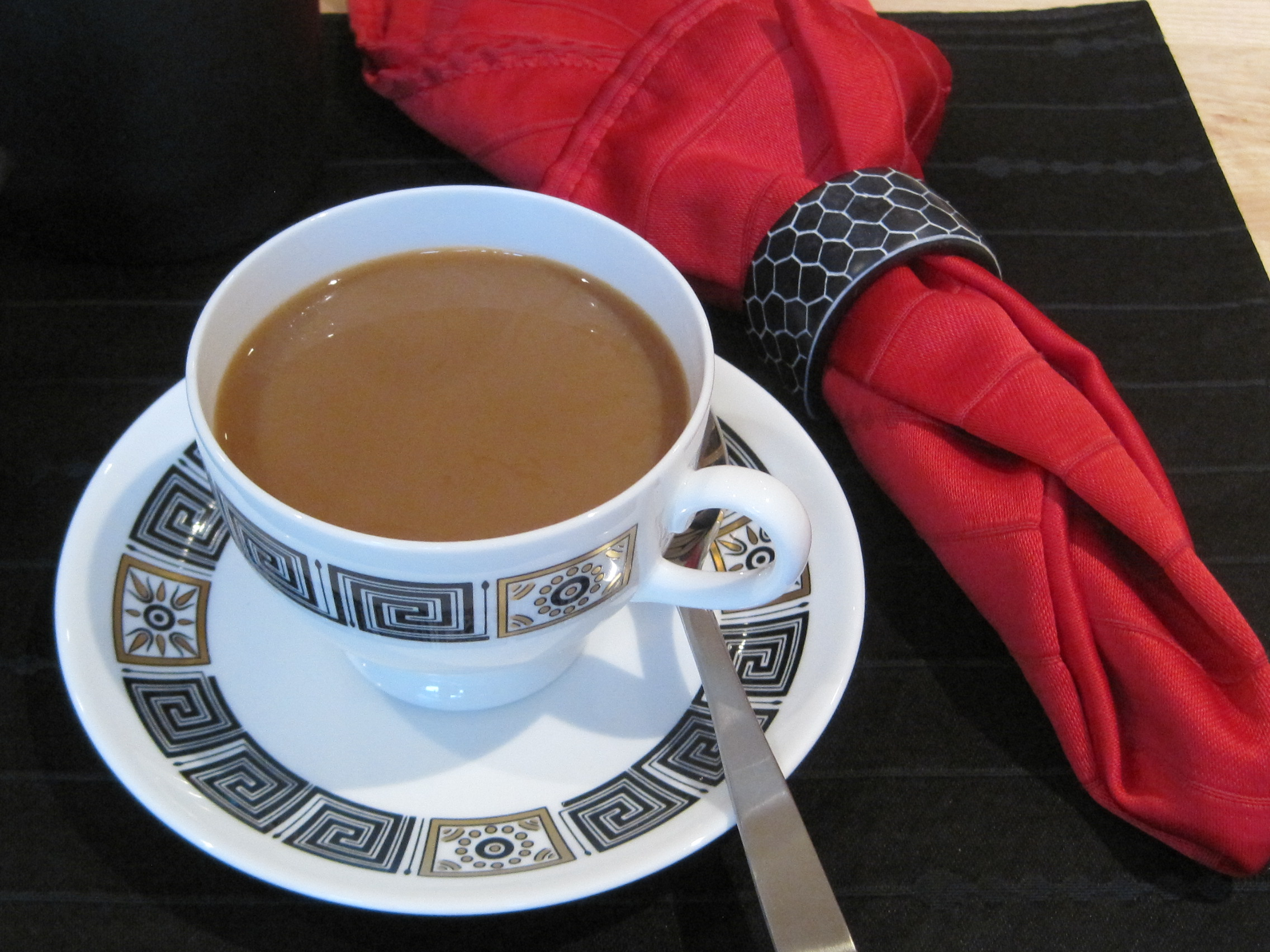 Coffee cup with coffee on saucer